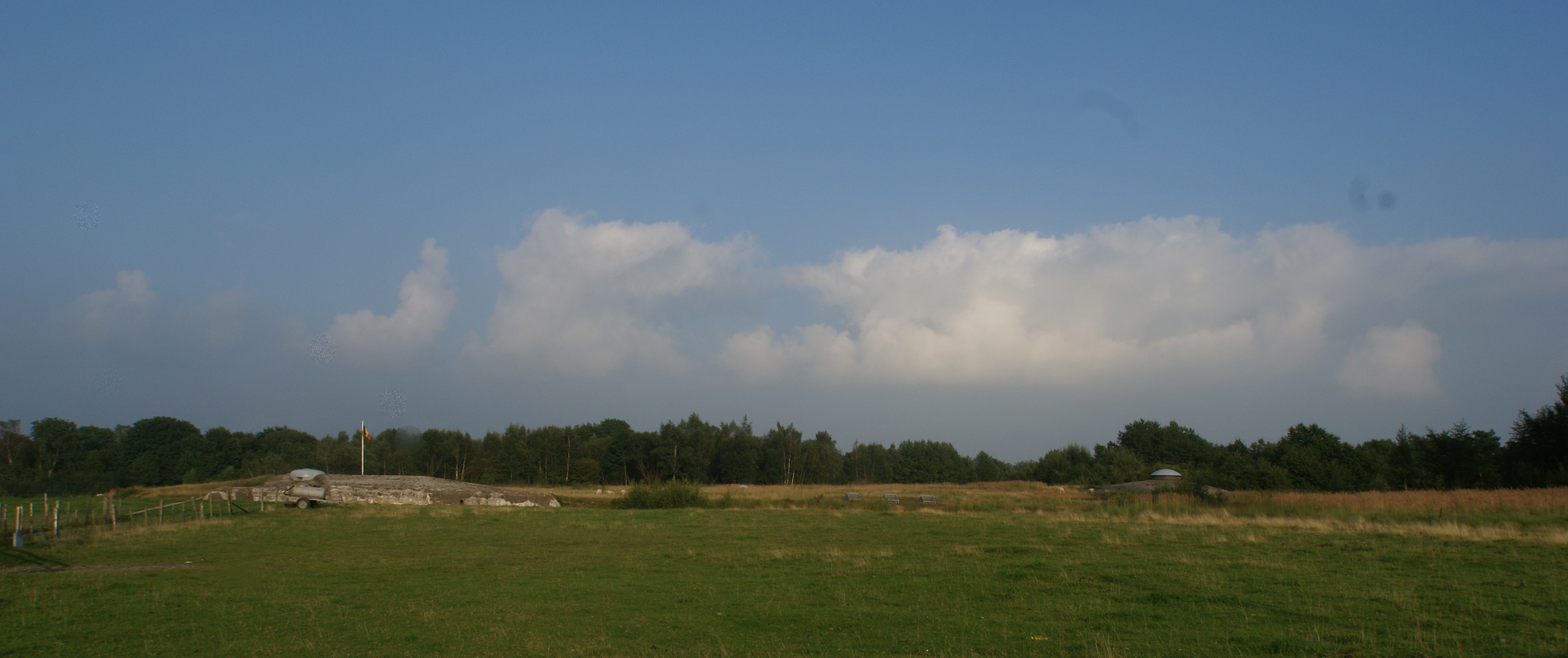 Tancrémont (Belgium): The fort - Panorama